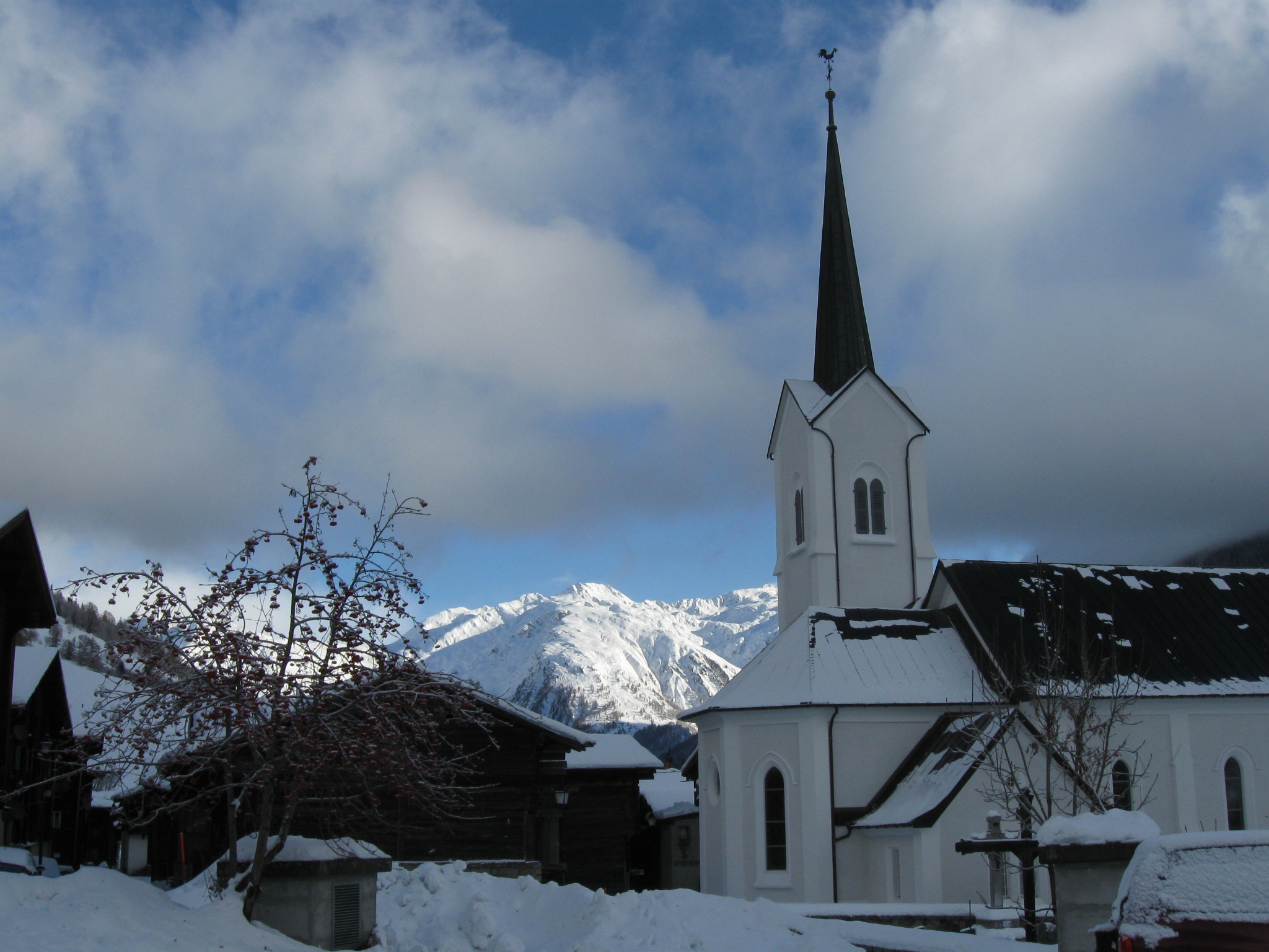 Church of the former municipality of Ulrichen, now part of Obergoms, Valais, Switzerland